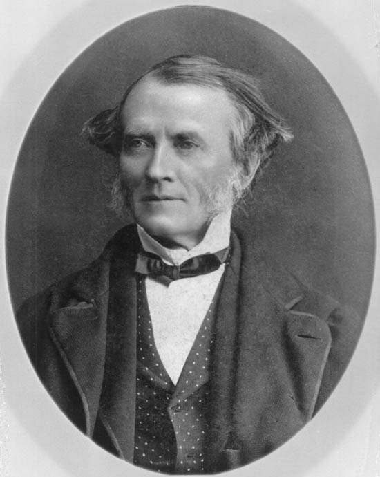 John Sandfield Macdonald